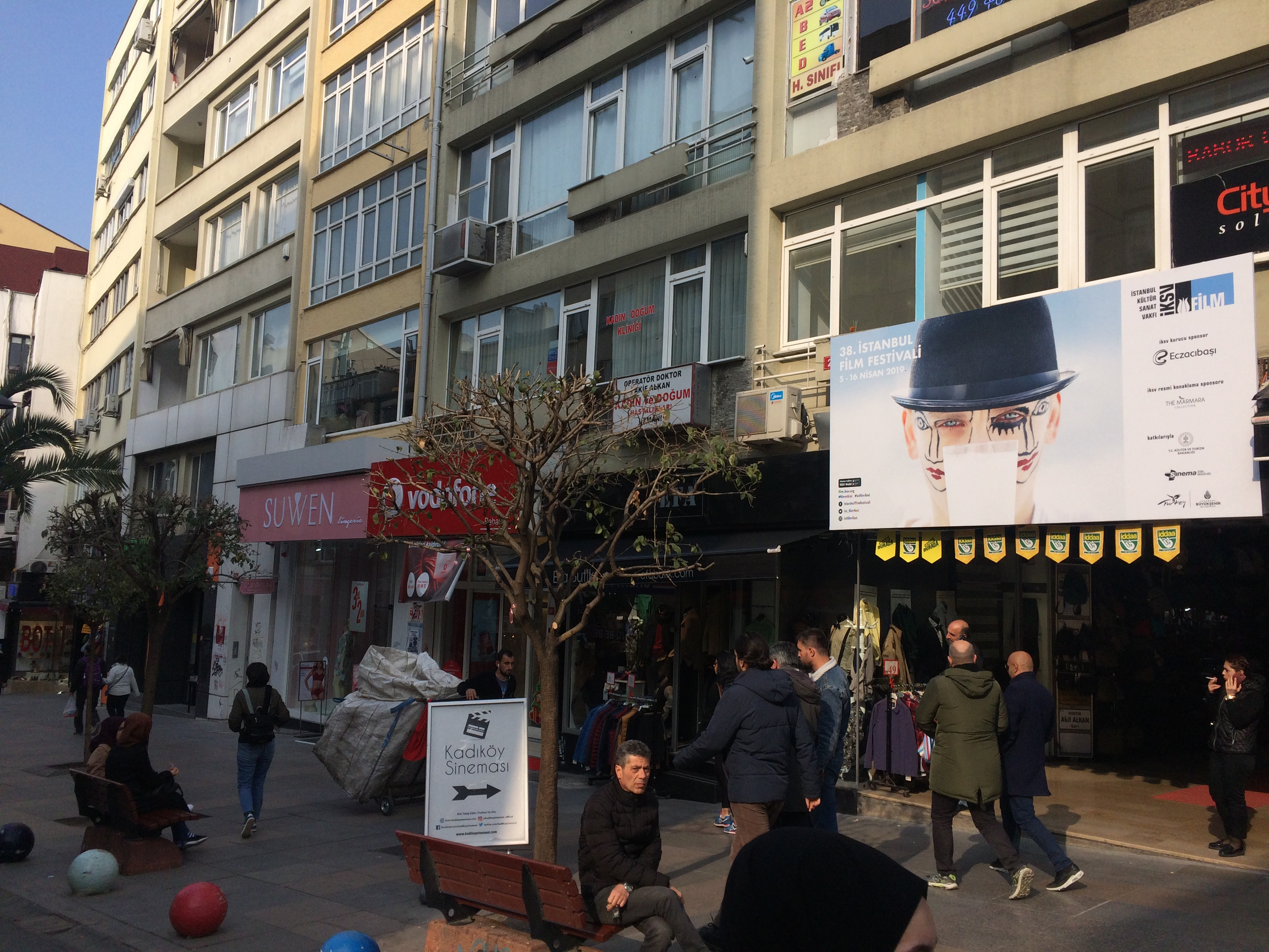 „Double Bieniek-Face No. 2“ by Sebastian Bieniek (B1EN1EK), 2019. On posters of the 38. Istanbul International Film Festival. Streets of istanbul. Poster, artwork, photography.